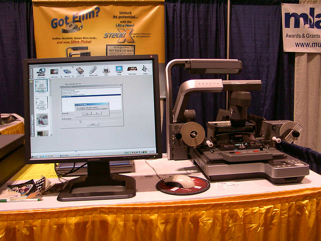 microfilm machine